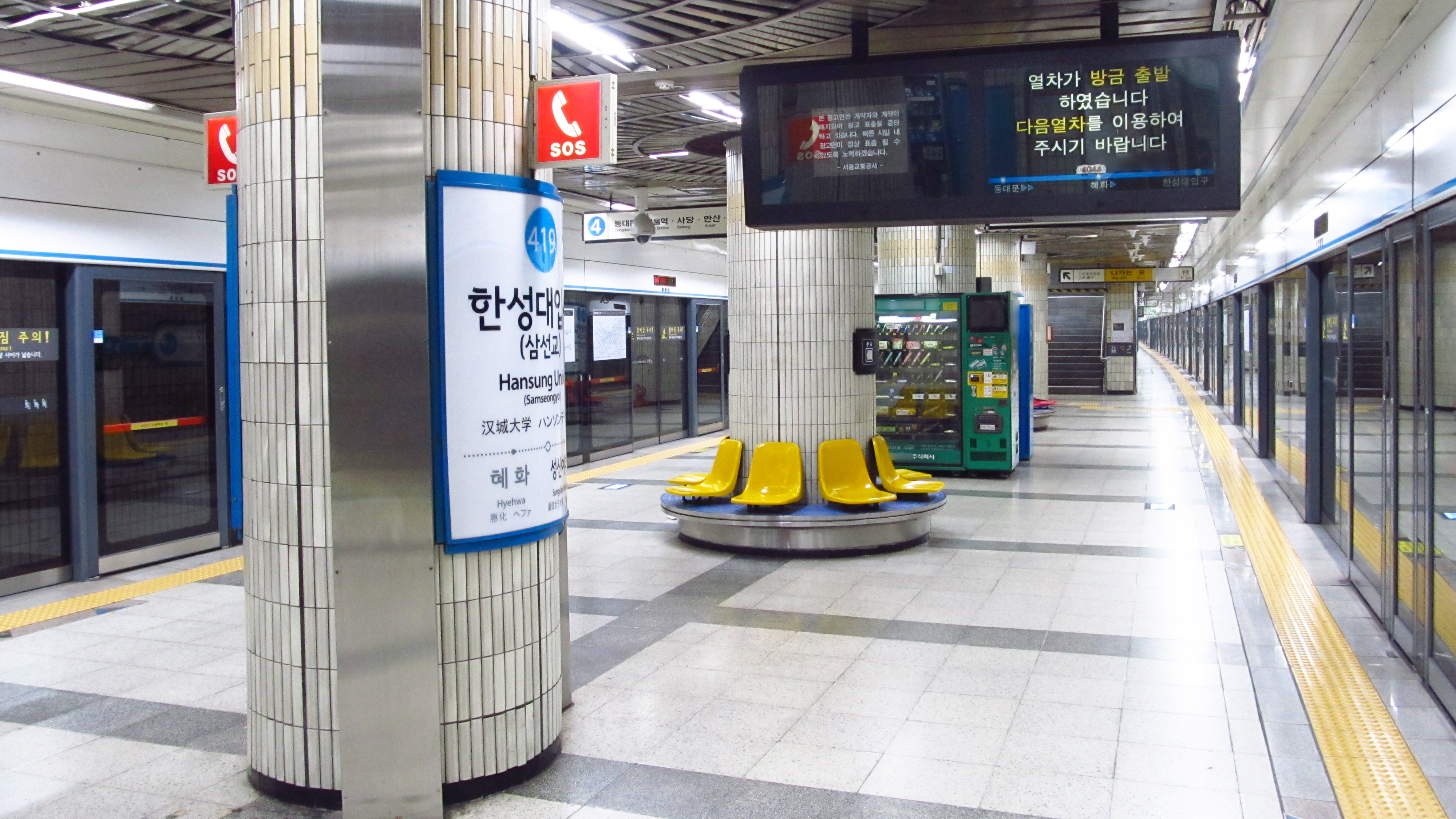 The platform at Hansung University Station on Seoul Subway Line 4 in Seongbuk-gu, Seoul, Republic of Korea(South Korea)